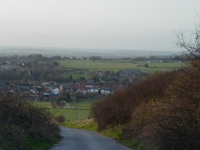 White Street and a view of Market Lavington. Many villages around this are have a White Street, leading from the village up unto the chalk hills.